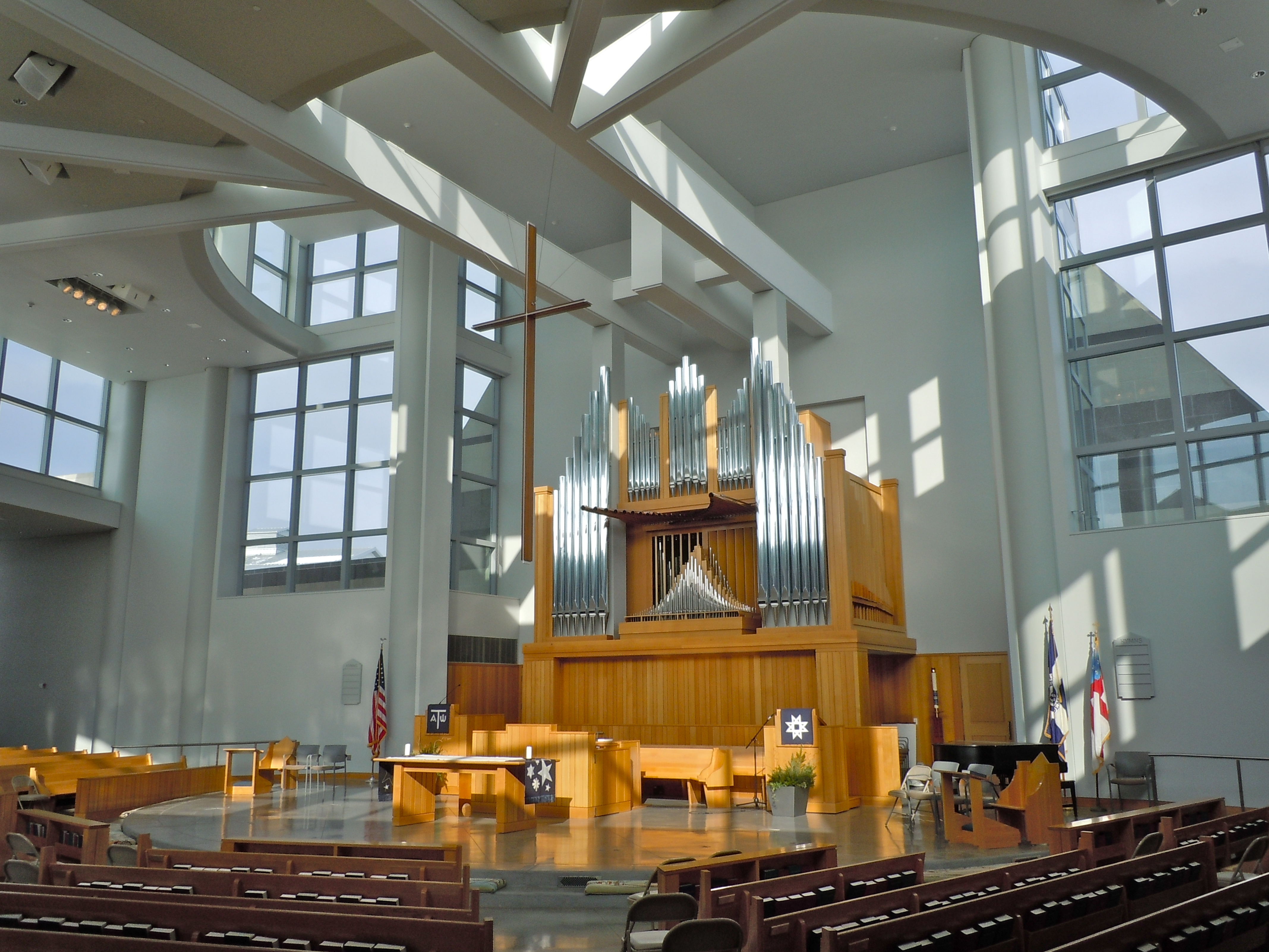 Interior of the Chapel at the Episcopal Academy near Newtown Square, Pennsylvania. Built 2010(?) Architect Robert Venturi, and alumnus of the Academy